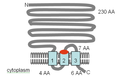 Author: Revel Drummond